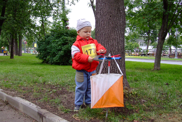 Child's orienteering